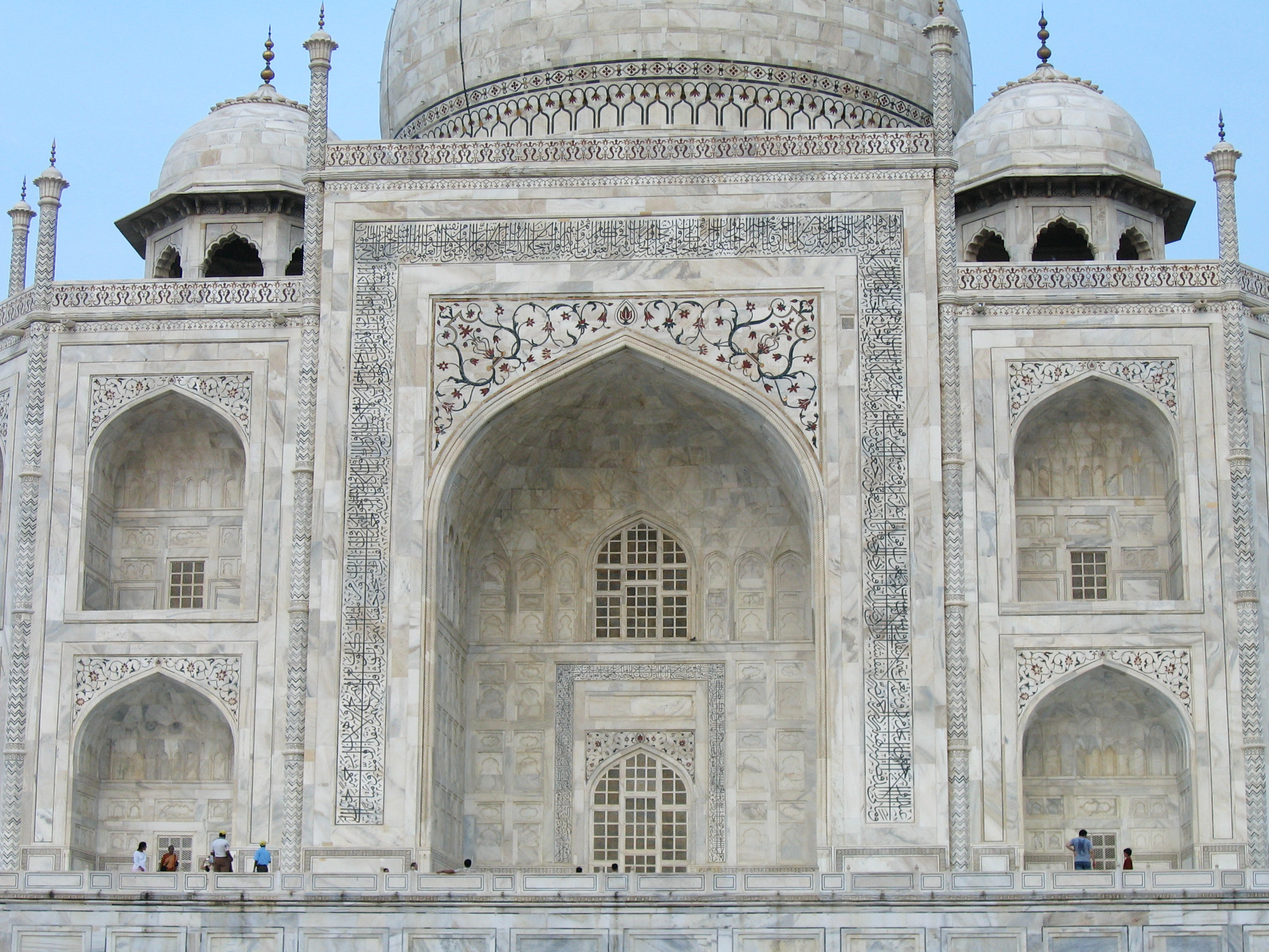 Taj Mahal, Agra views from around